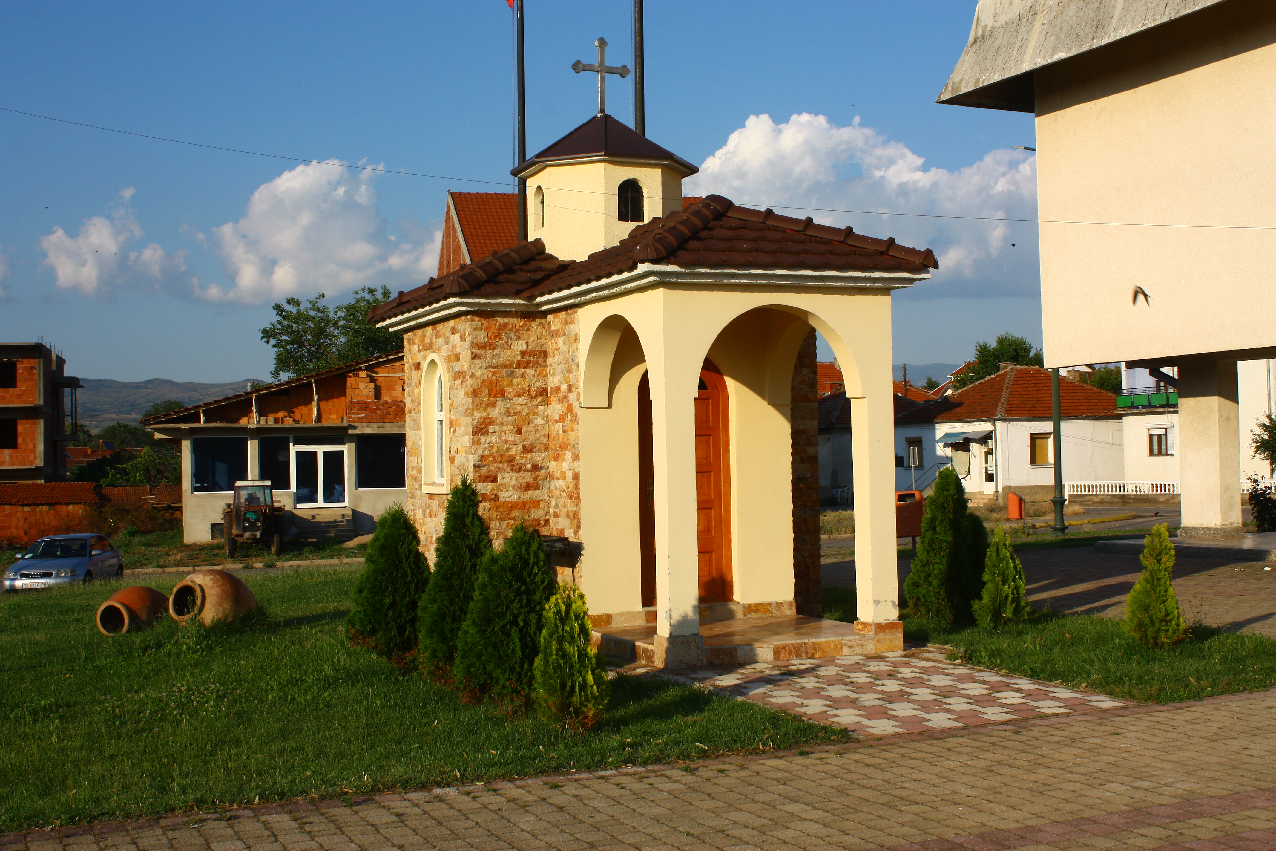 St. Paul's Church on the main square in Vinica, Macedonia